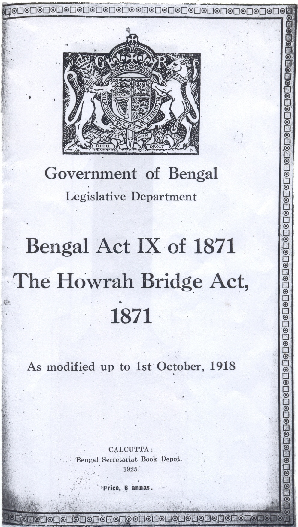 Front cover of Howrah Bridge Act, 1871